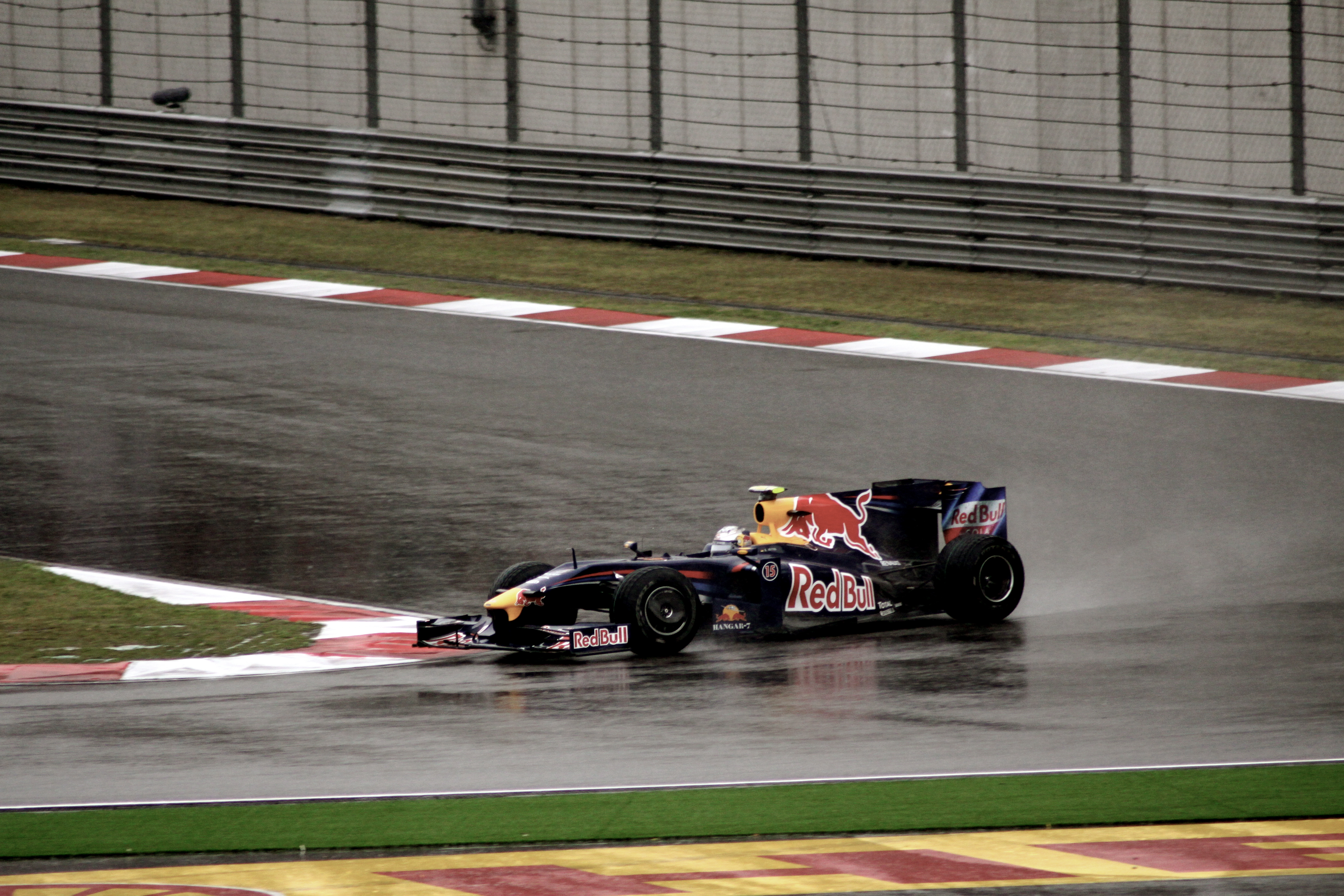 Red Bull 3 China 09